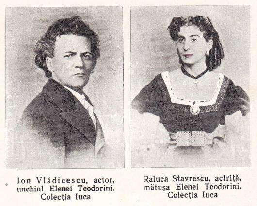 Viorel Cosma, Elena Teodorini,Editura Muzicala, 1962